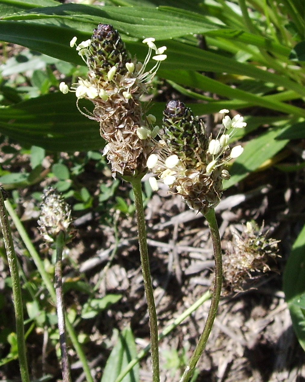 Plantago lanceolata (plantain) flowers, Castelltallat, Catalonia